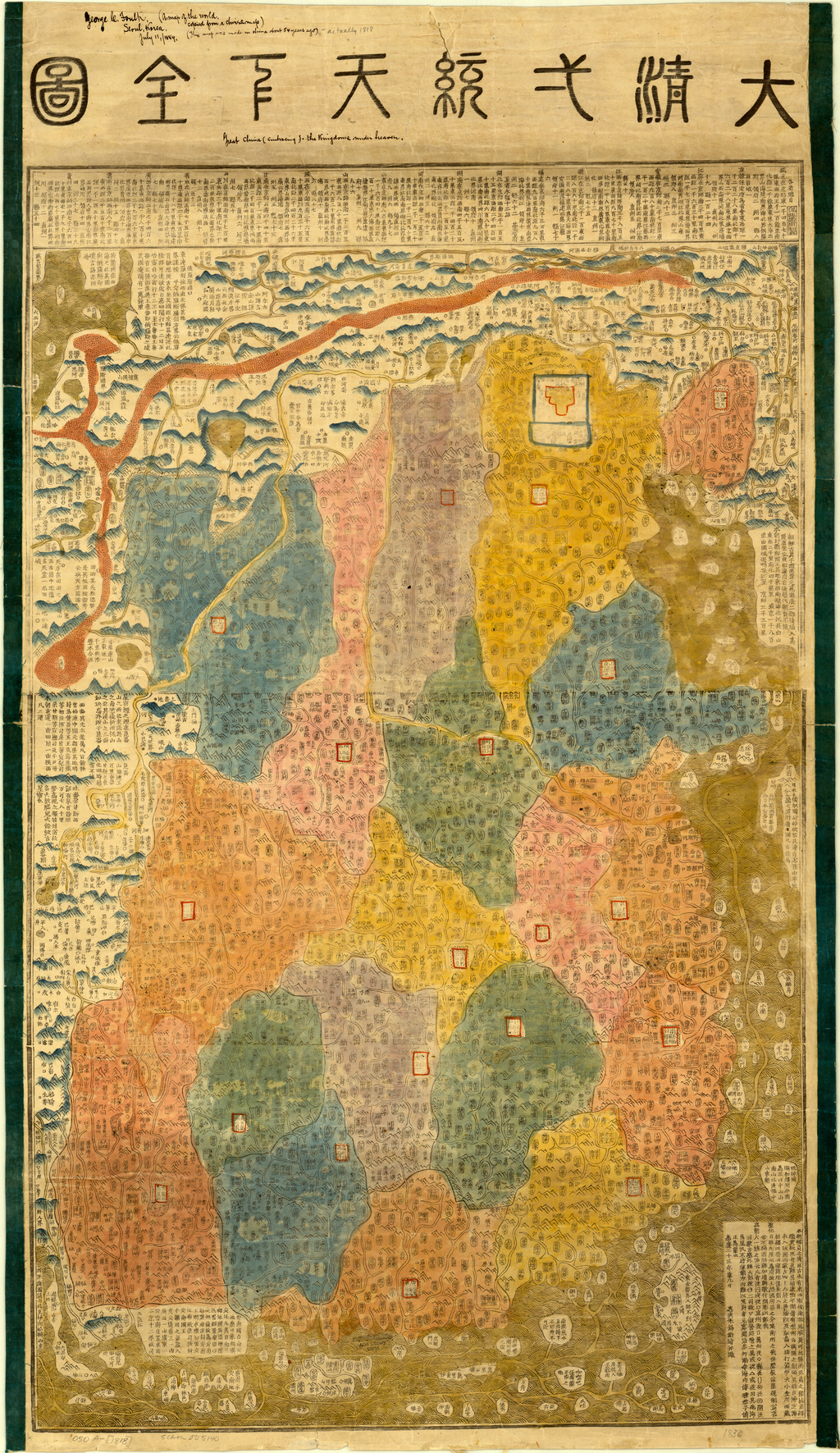 This rare Chinese map of the world is an important example of Chinese cartography from the early 19th century. The map is a hand-colored wood-block print, first published in Beijing by Zhu Xiling. China is at the center of the map, which shows the Great Wall, Lop Nur Desert, provincial divisions, provincial and regional capitals, military outposts, local settlements, and the main waterways and rivers. Hainan, Taiwan, Java Island, Brunei, Johore, Vietnam, and Cambodia are delineated. America and other Western countries are represented as an array of amorphous and inconsequential islands bordering the main landmass. The map also shows “Eluosi guo,” or “Russia Country;” “Yingjili guo jie,” or “England Border;” and “Helan guo,” or “Holland Country.” The Indian Ocean is described as the “Small Western Ocean.” The map was given to the American Geographical Society of New York in 1884 by George C. Foulk and bears his annotations. World maps